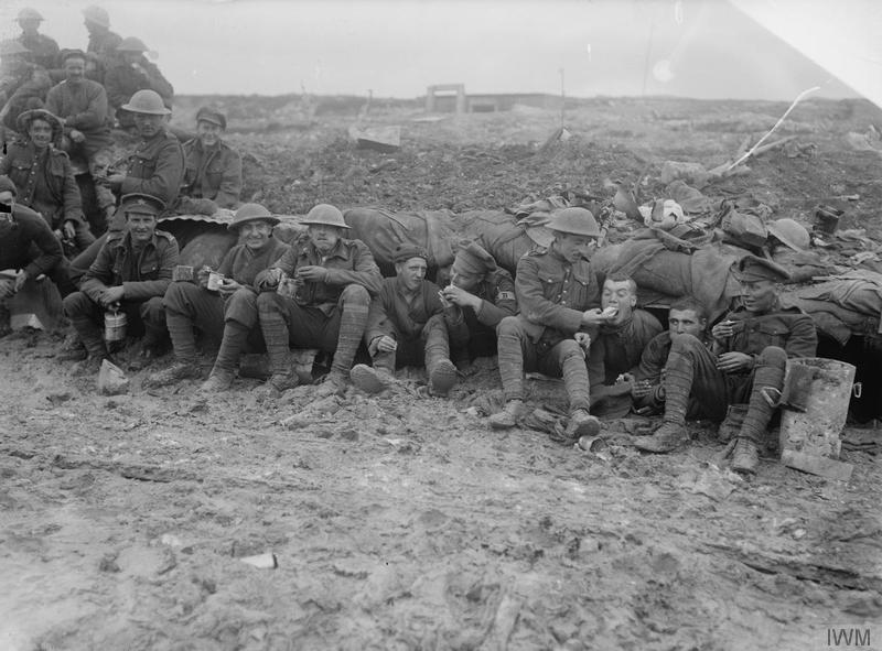 The Battle of the Somme, July-november 1916 Soldiers of the Canadian Expeditionary Force, possibly 25th Battalion (Nova Scotia Rifles) of the 5th Infantry Brigade, 2nd Infantry Division eating rations whilst seated on muddy ground outside a shelter near Pozieres, October 1916, during the final stages of the Battle of the Somme, possibly during the Battle of Le Transloy.